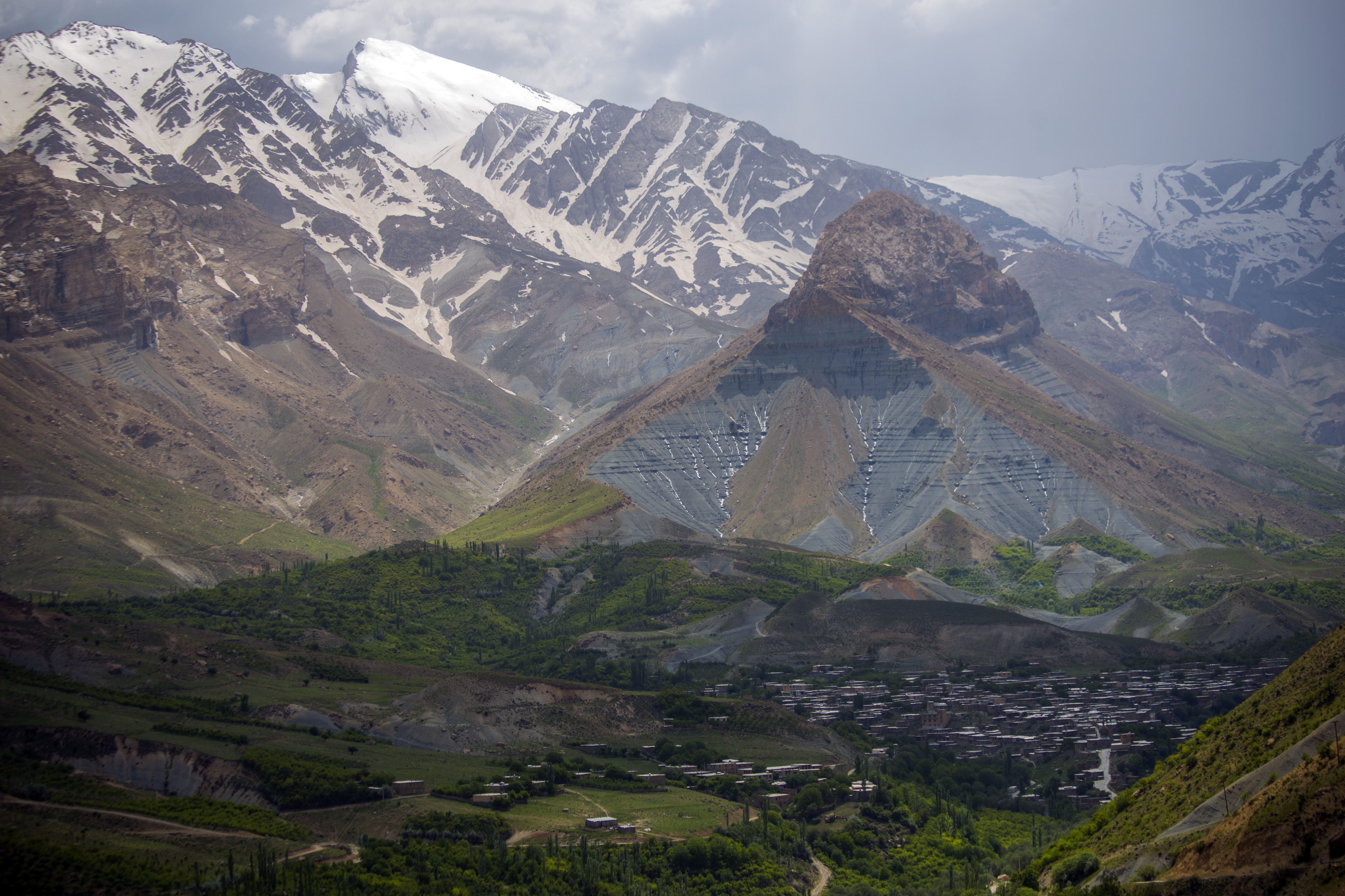 A village is a clustered human settlement or community, larger than a hamlet but smaller than a town, with a population ranging from a few hundred to a few thousand.